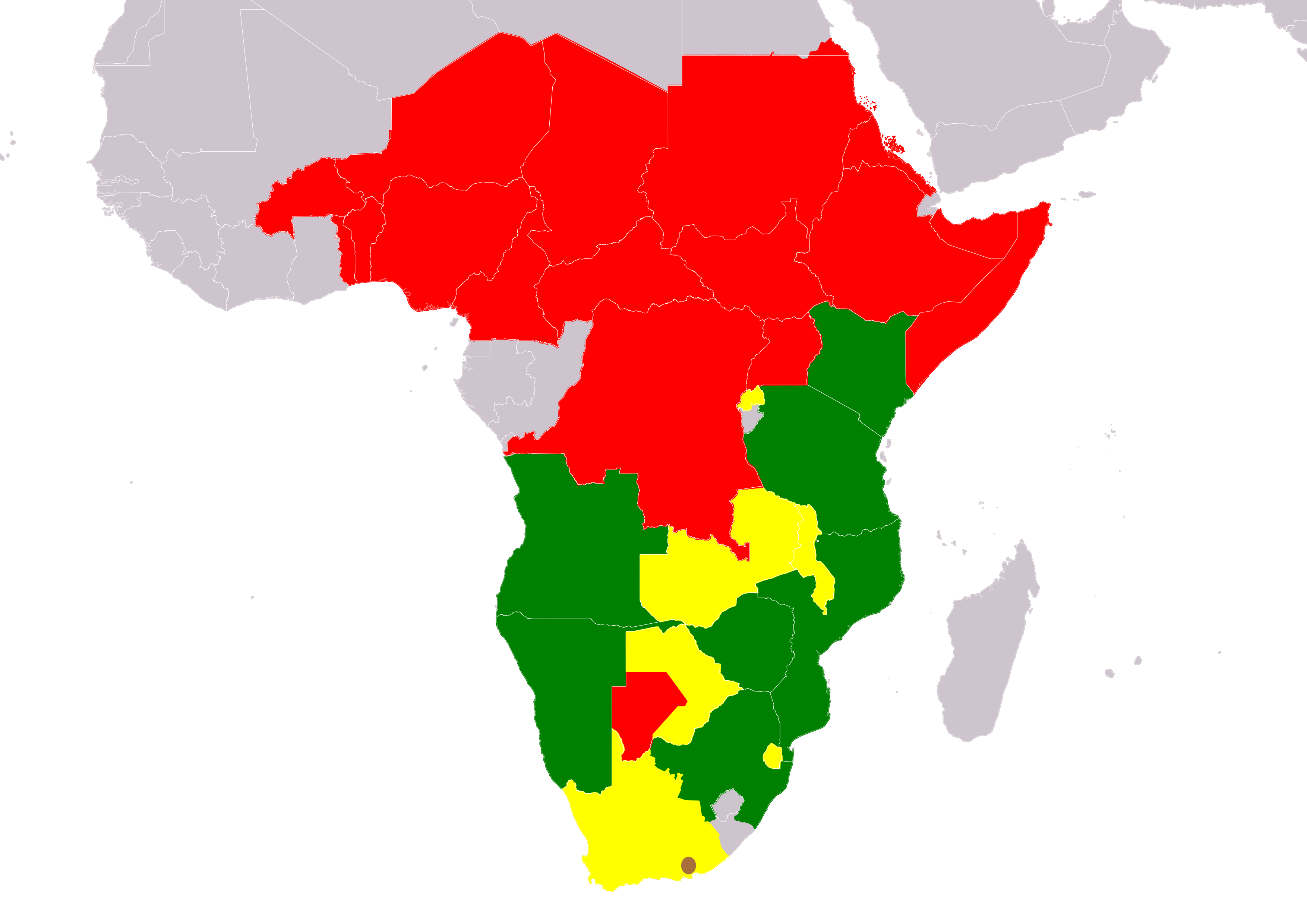 Distribution map od Black Rhino (Diceros bicornis) according to IUCN version 2020.1; key: Legend: Extant, resident (#008000), Extinct (#FF0000), Extant & Reintroduced (resident) (#FFFF00), Extant & Assisted Colonisation (resident) (#a76f3b)